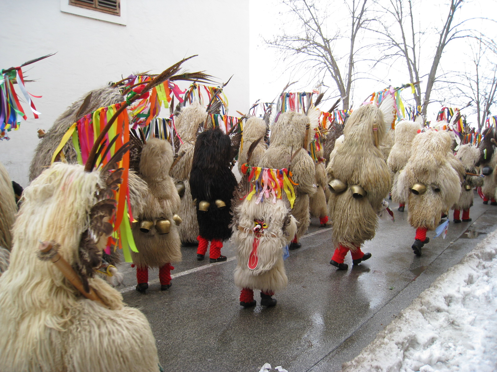 Bells on the belts of Kurenti in Ptuj, SloveniaSlovenščina: Zvoni na pasu kurentov na Ptuju